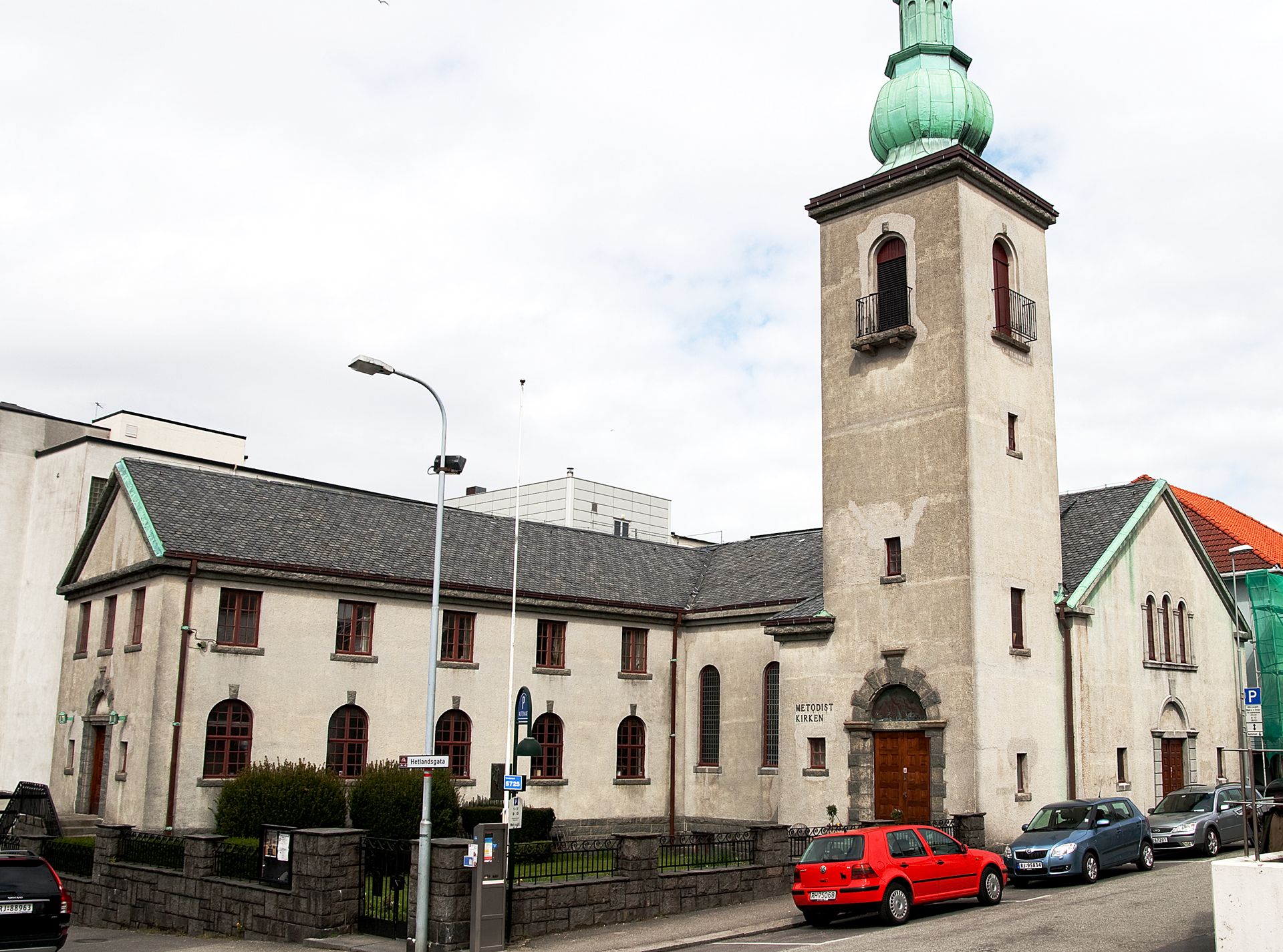 Methodist church in Stavanger